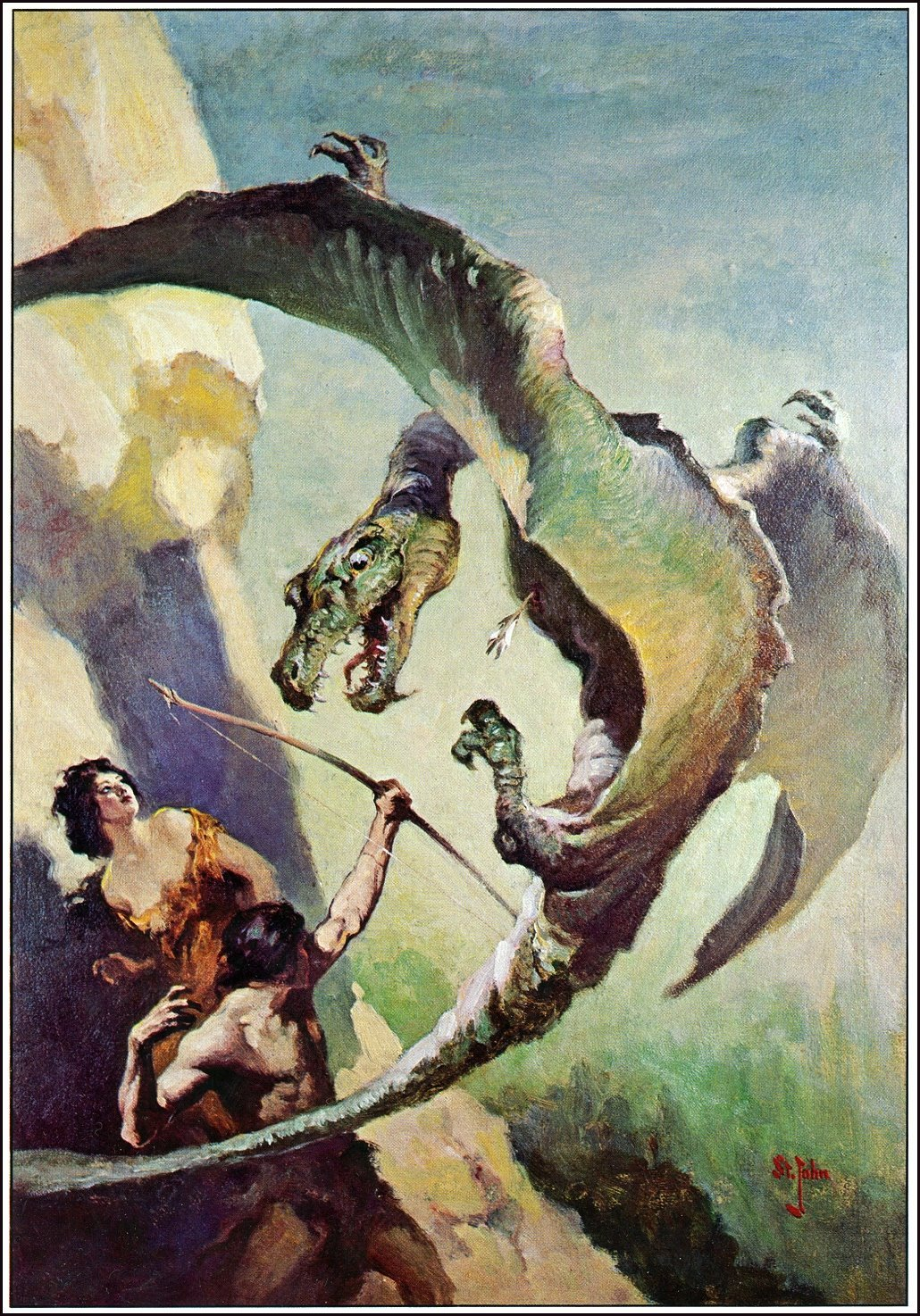 The illustration for the dust jacket of At the Earth's Core (1922)